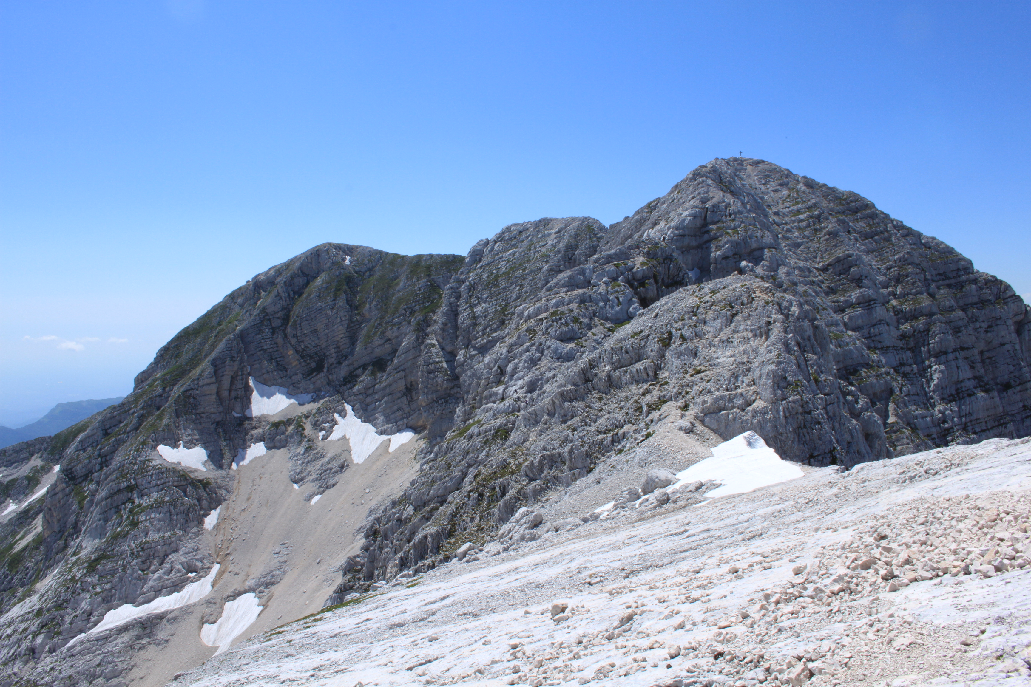 Mount Visoki Kanin / M. Canin alto (2,587 m) with Mail Kanin (M. Canin basso, on the left), eastern - slovenian side.